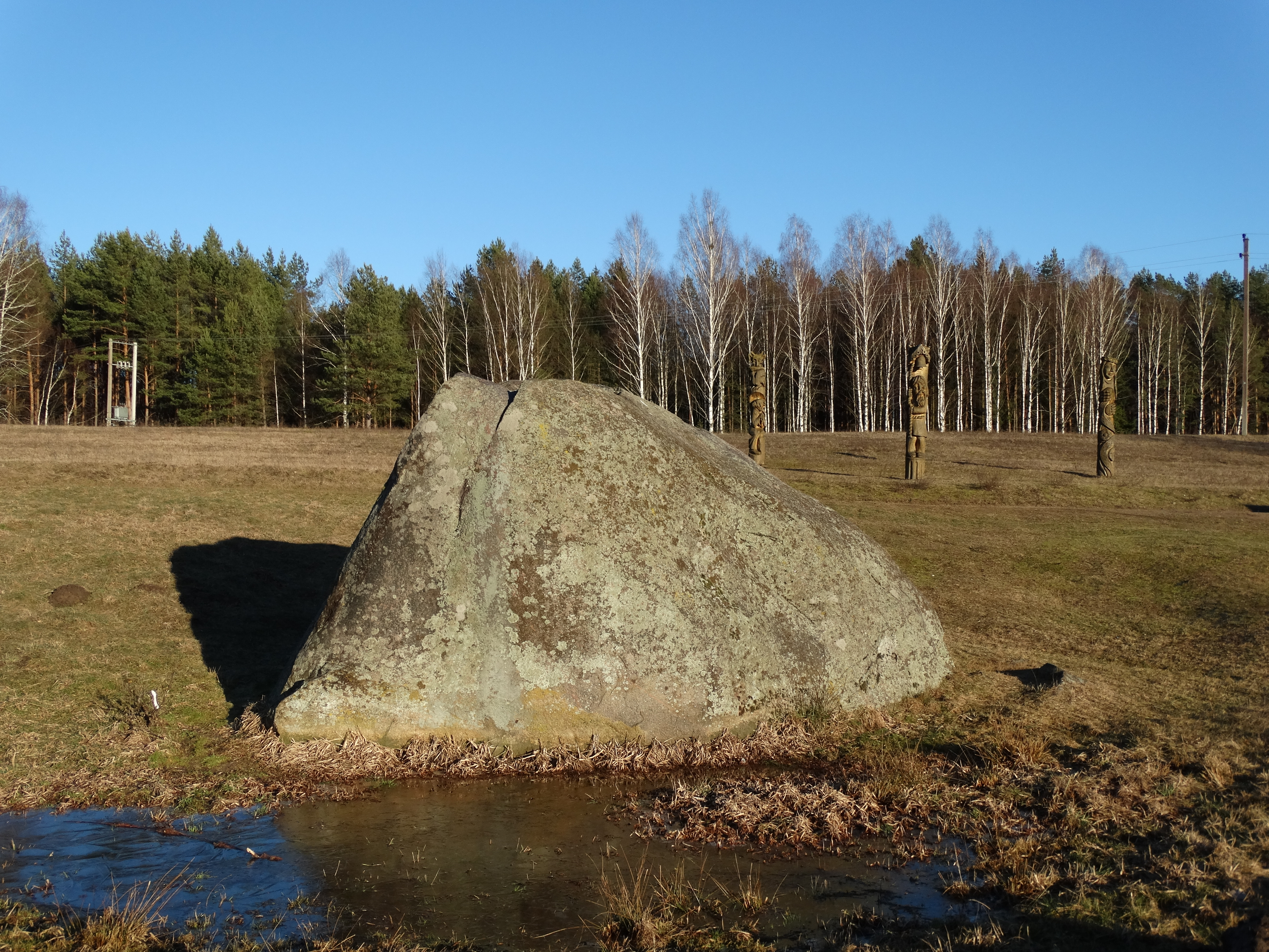 Devil's stone, Švendubrė, Druskininkai Municipality, Lithuania